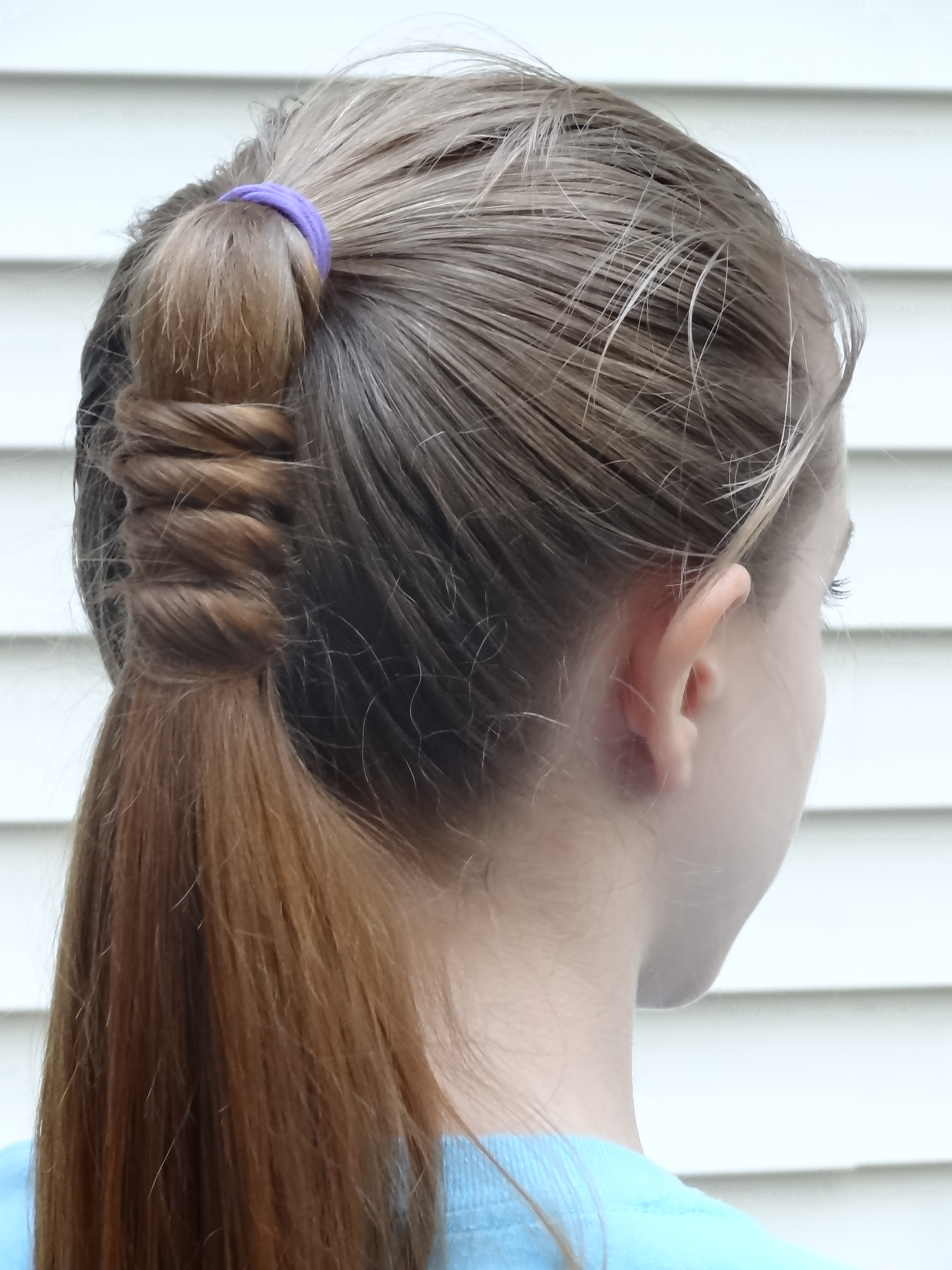 Ponytail with ornament; instructions: 2 strands being tied with a knot on the front, then wound around the back (picking up additional strands in order to gain more length), then tied again at the front, etc.